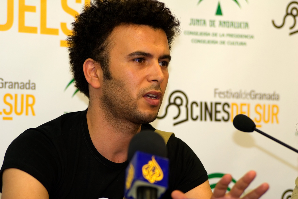 Lotfi Abdelli, tunisian actor of "Making Of"